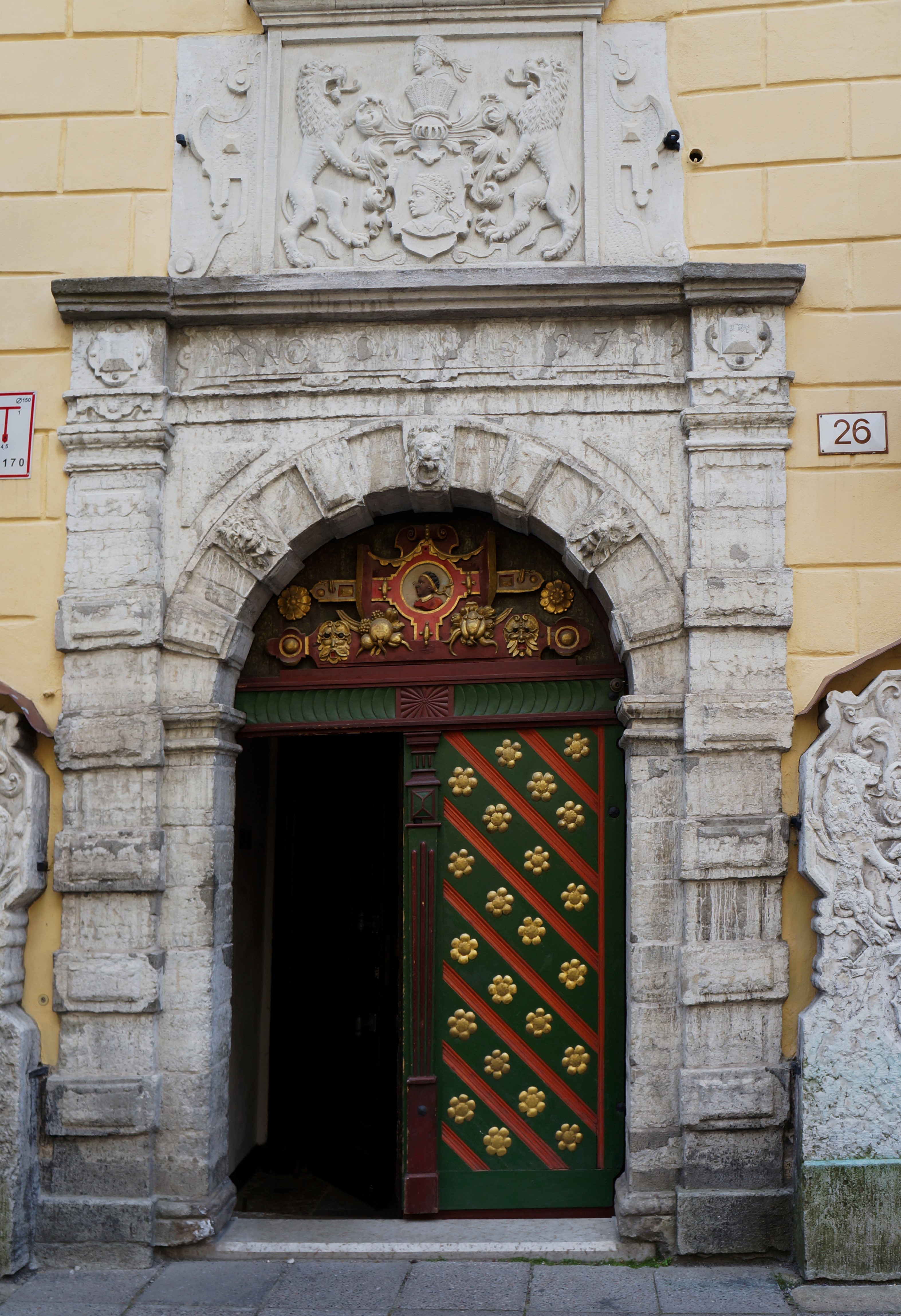 House of "Brotherhood of Black Heads", Tallinn.